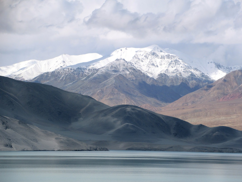 The snowcapped peaks of the Xinjiang Pamir Mountains rise above the Bulunkou River south of Kashgar, China.